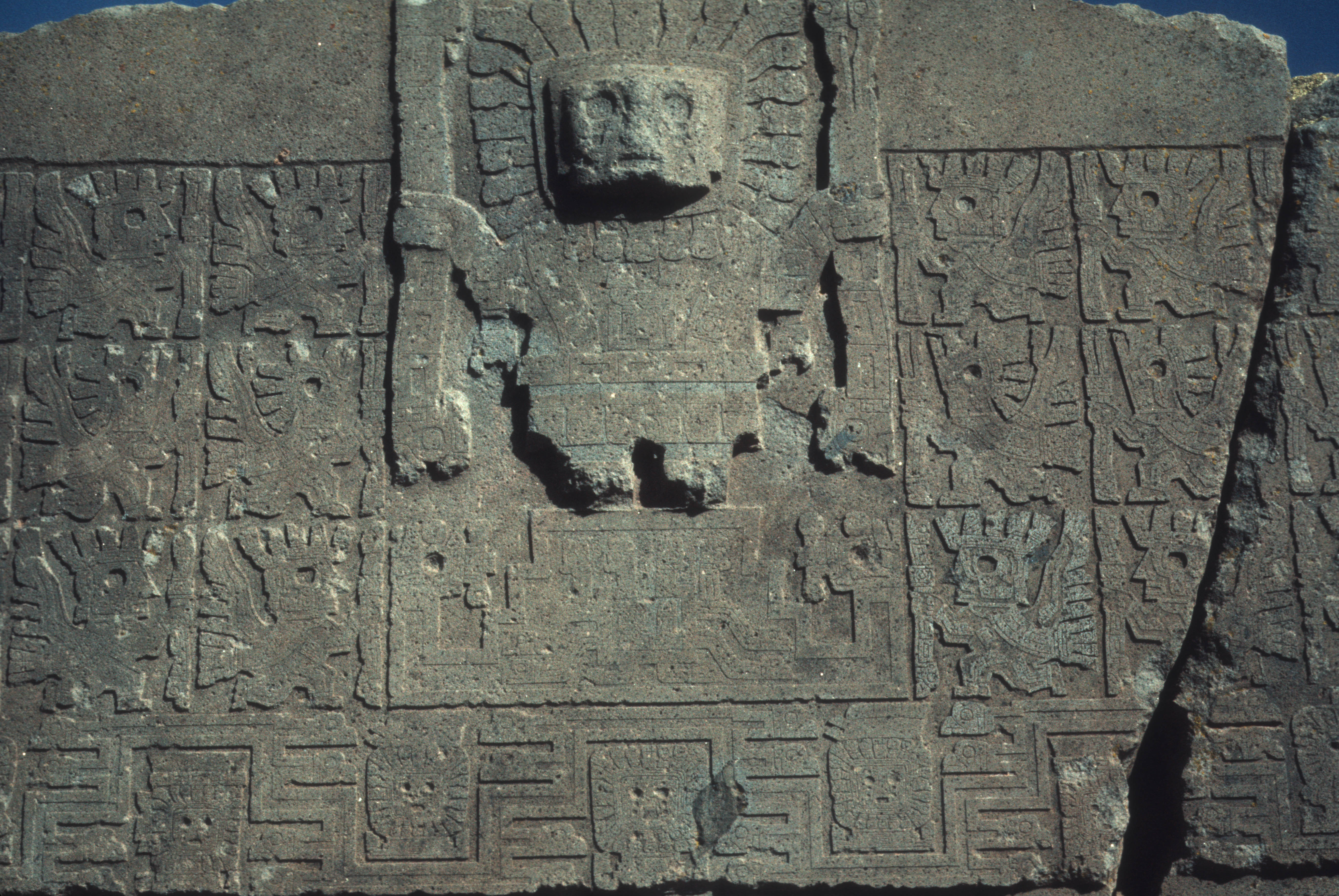 CLOSEUP OF THE CARVINGS ON THE PRE-INCAN GATE OF THE SUN